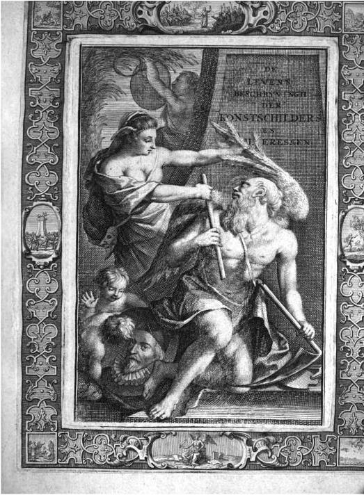 Engraving from the Levensbeschryvingen konstschilders, a comprehensive dictionary of art by Jacob Campo Weyerman, published in 1729 and illustrated with engravings copied from Arnold Houbraken's Schouburgh Frontispiece VI with Otto van Veen